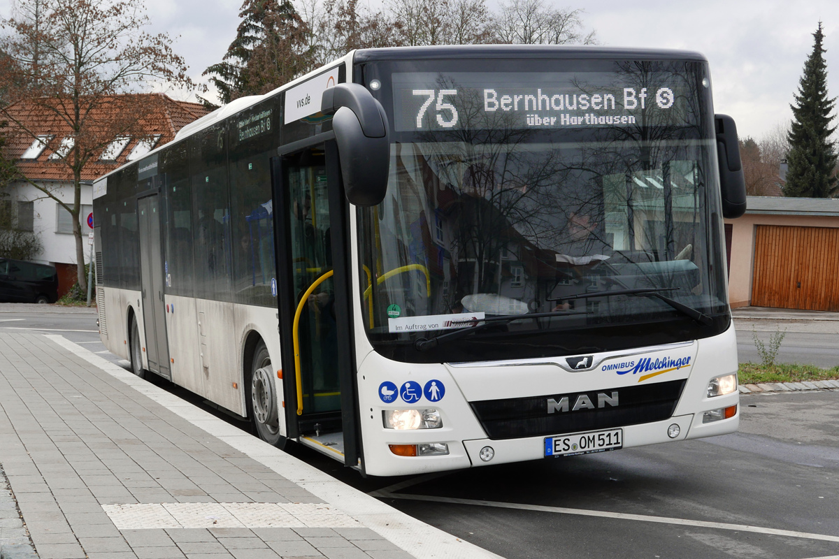 MAN Lion’s City of Melchinger